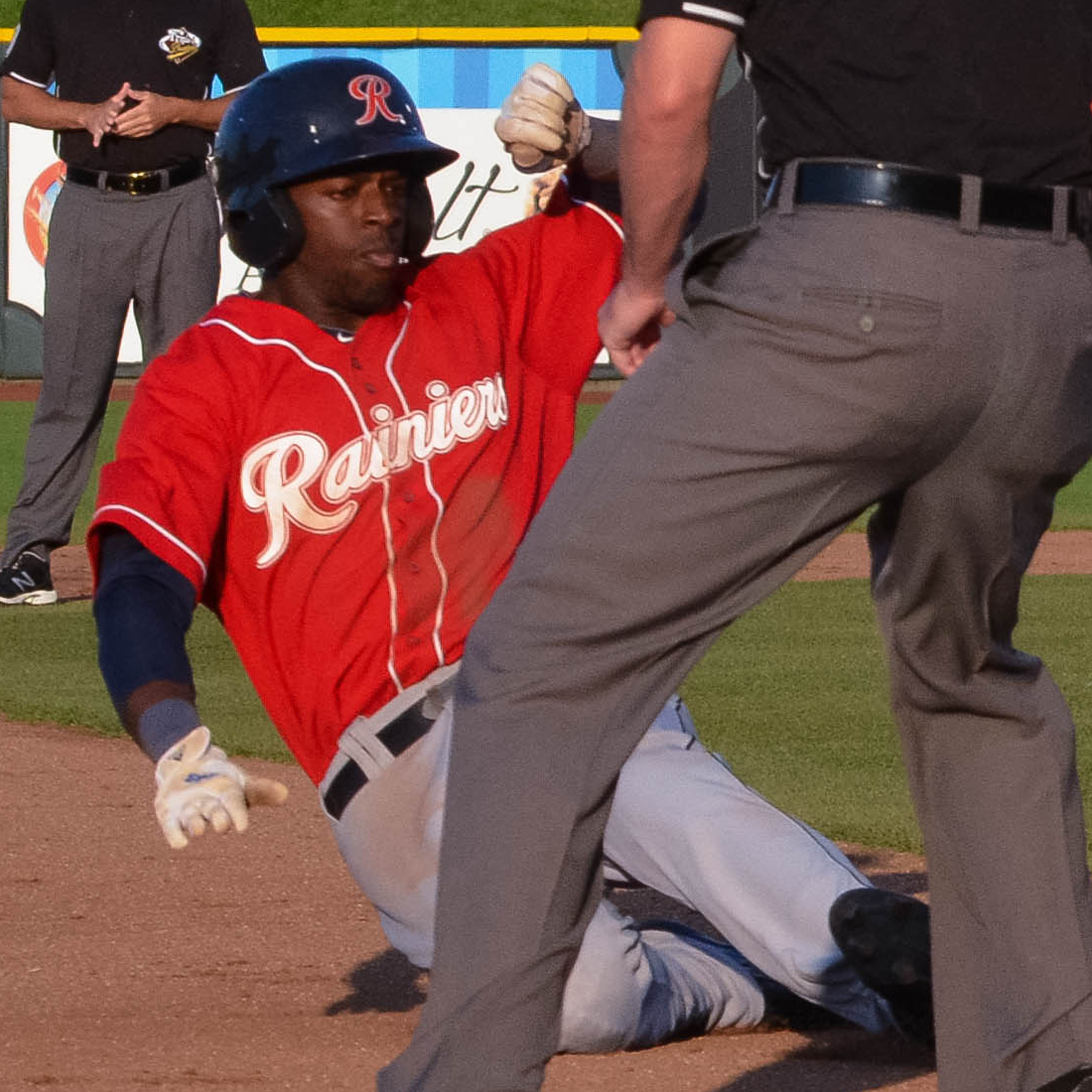 James Jones